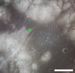 Green dot shows location of Shorty, Taurus-Littrow Valley, on the moon. Scale bar at lower right is 5 km.